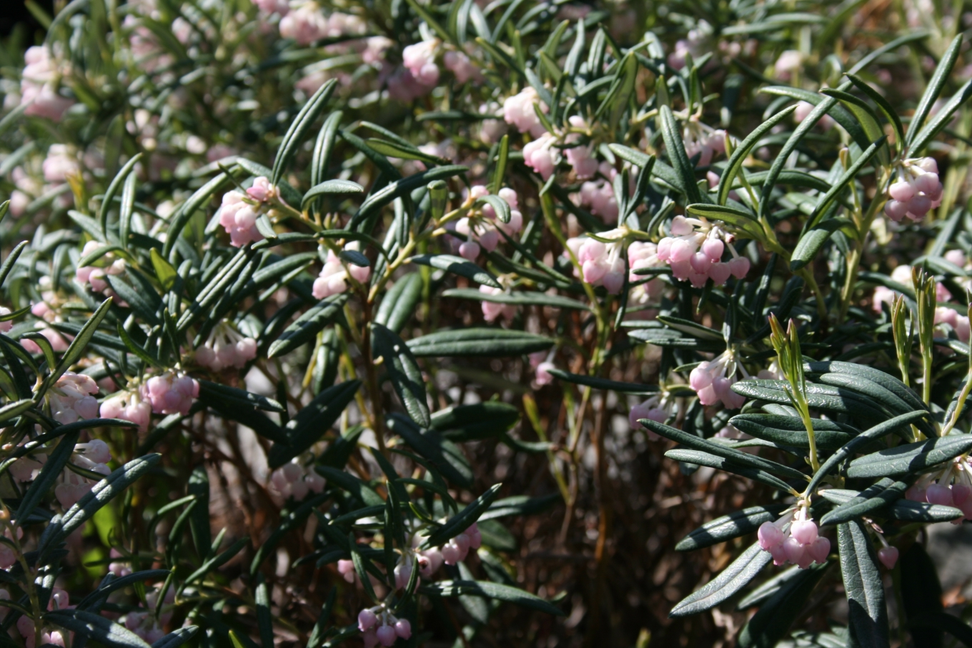 Andromeda polifolia: Flowering plant.